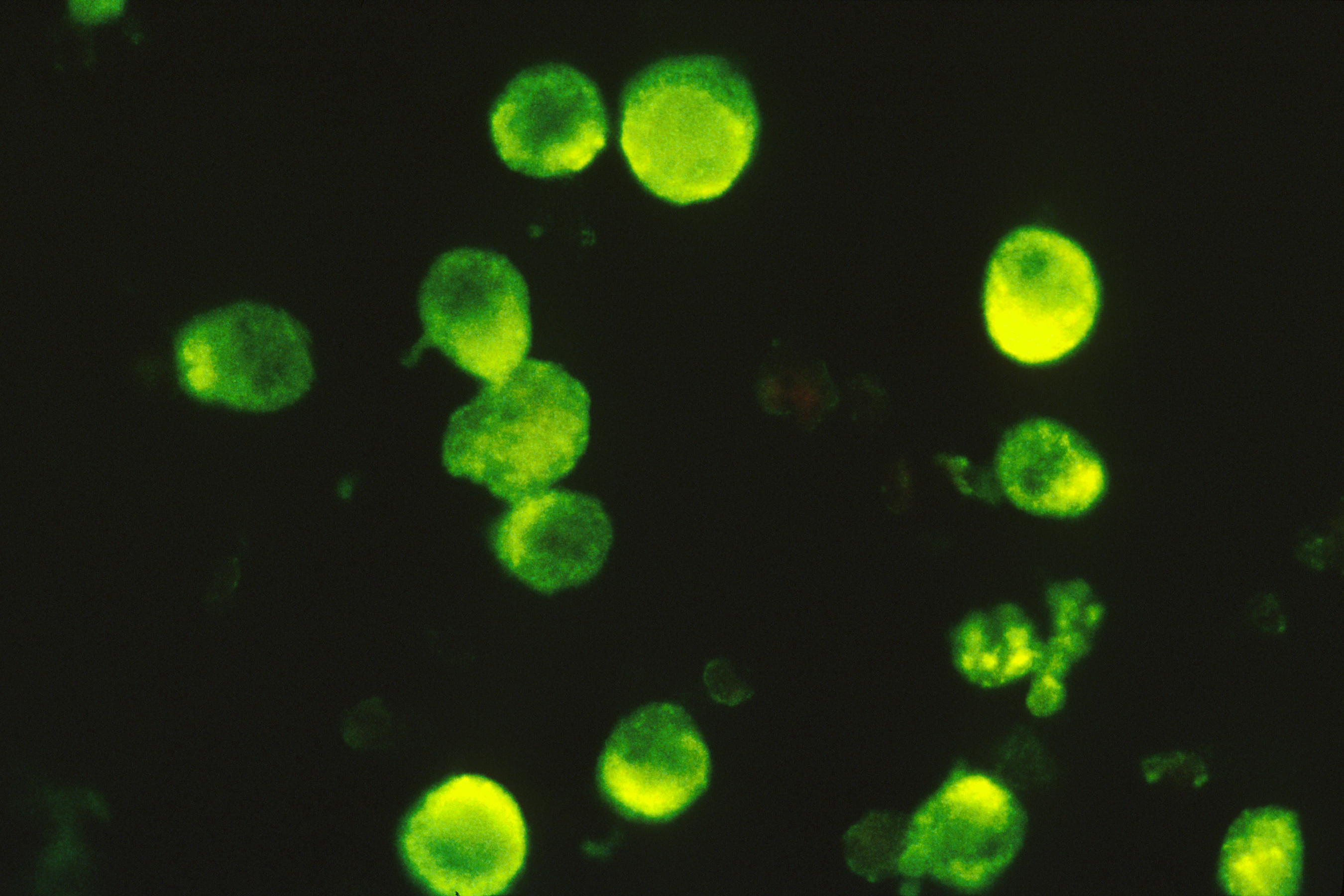 Title Immunofluorescence (Positive) Description This is a histological slide of the human lymphotropic virus (HHV-6), a type of herpesvirus that was discovered in October, 1986. The bright immunofluorescent stain indicates a positive reaction and the HHV-6 infected lymphocytes are now producing viral antigens. The increased intensity of the immunofluorescent stain indicates a higher concentration of viral antigens. Maximal intensity indicates that the infected cell is at its peak for viral production. The cell will die within 24 hours and cause a sudden release of the virus. Topics/Categories Cells or Tissue, Abnormal Cells or Tissue Type Color, Photo Source Zaki Salahuddin. Laboratory of Tumor Cell Biology